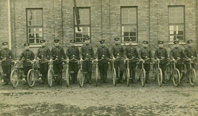 Army cyclists, Tauragė, Lithuania